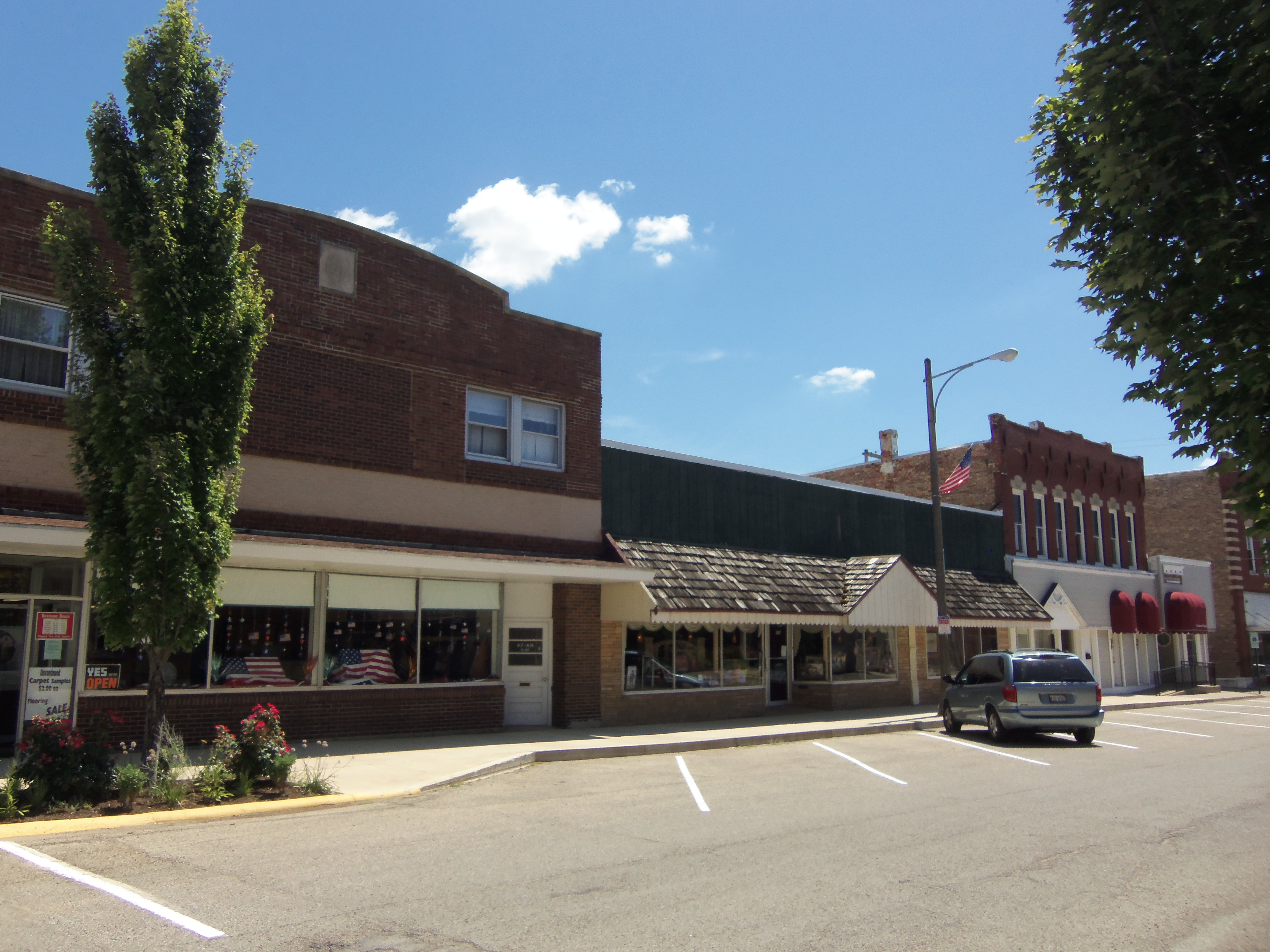 Buildings in downtown Henry, Illinois.